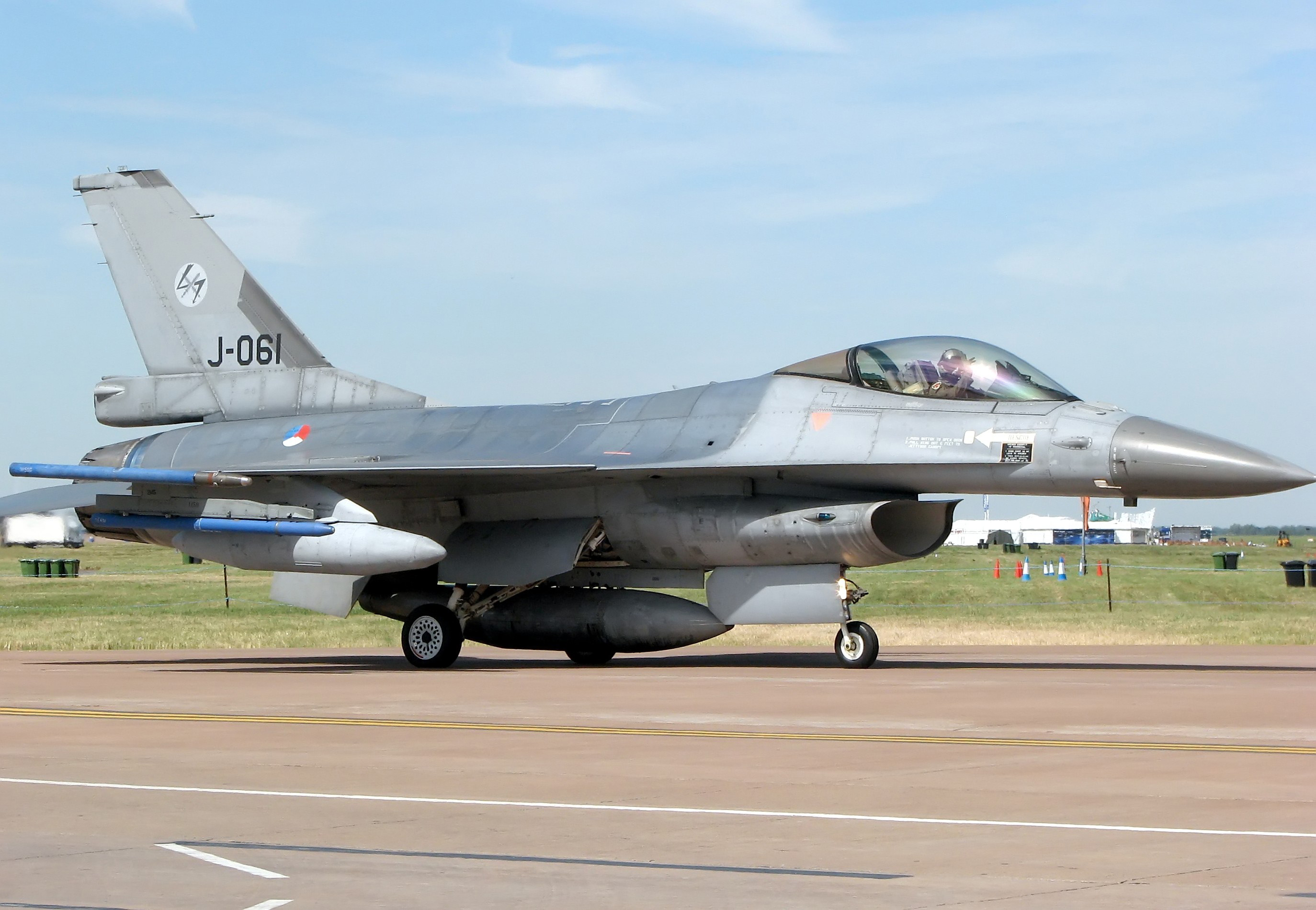 F-16AM Fighting Falcon (identifier J-061 and 86-061) of the Royal Netherlands Air Force taxis for takeoff at the Royal International Air Tattoo, Fairford, Gloucestershire, England. Photographed by Adrian Pingstone on July 17th 2006 and released to the public domain.